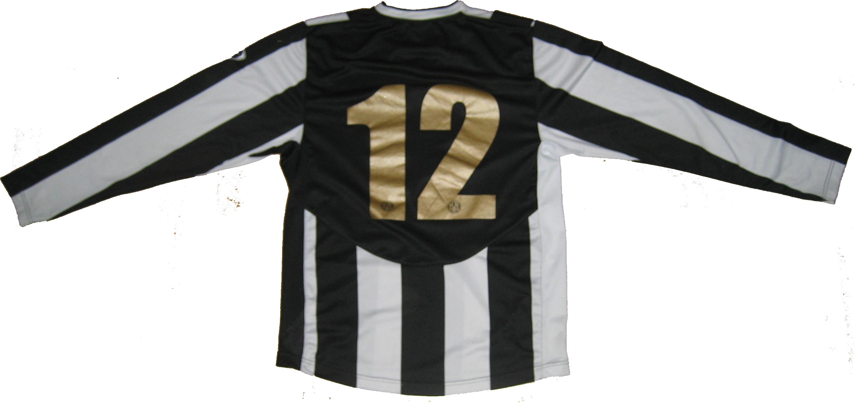 KR shirt, back.